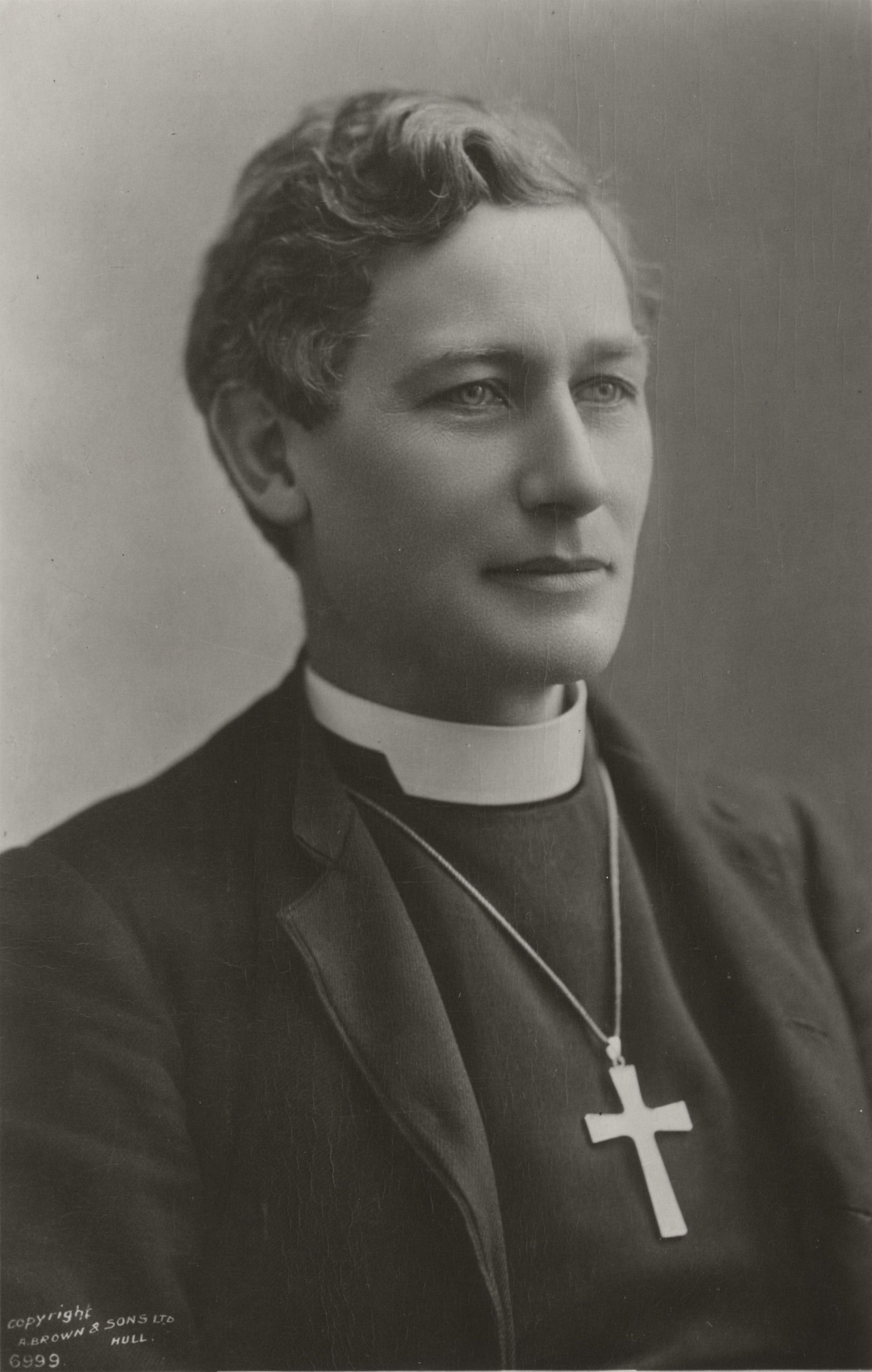 John Augustine Kempthorne (1864-1946), Bishop of Lichfield, by Brown & Sons Ltd of Hull. This photo was probably taken when he was inducted as Bishop of Lichfield in 1913. The reverse of the card has the handwritten message, "To Maude with love."